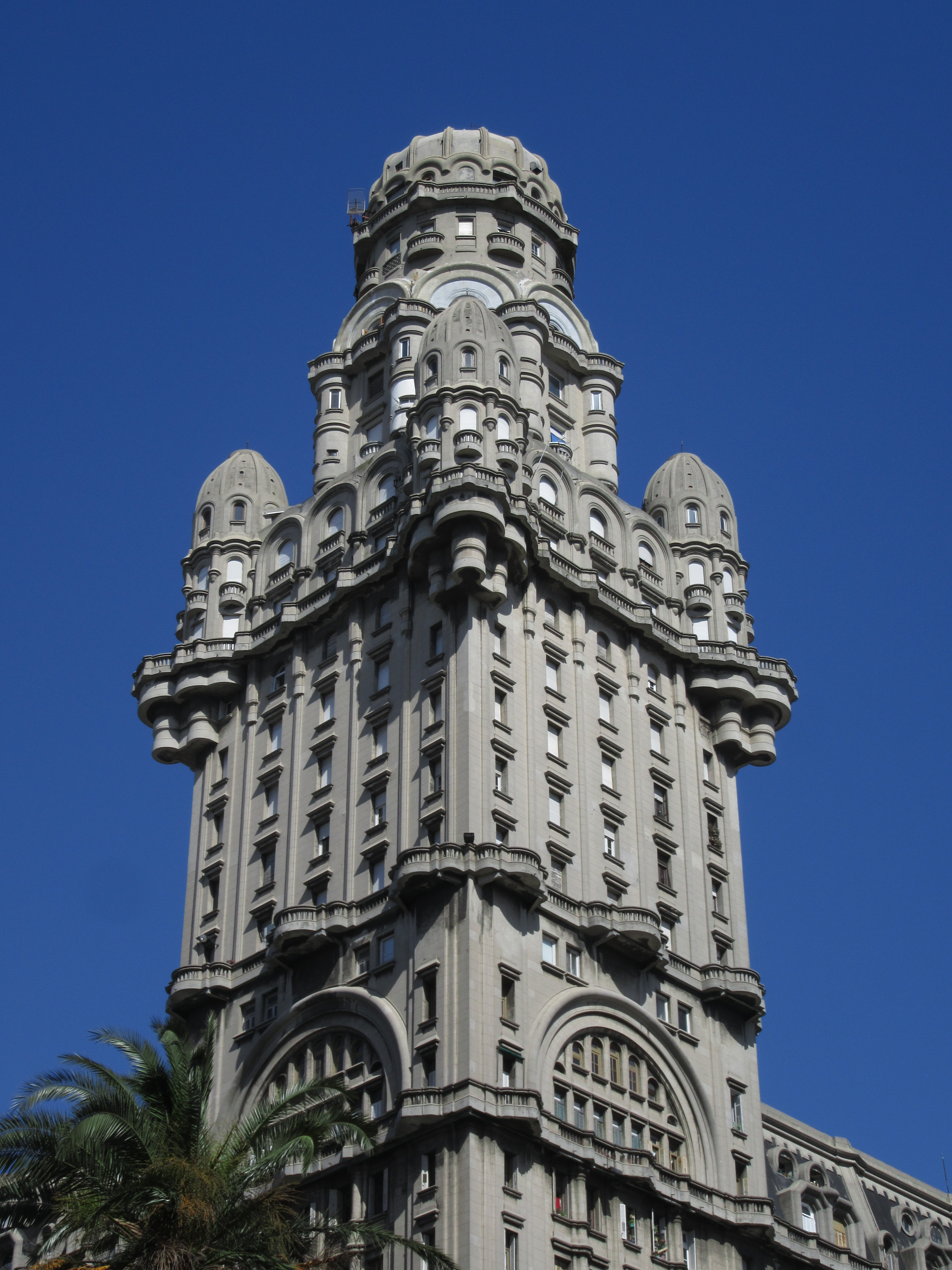 Montevideo